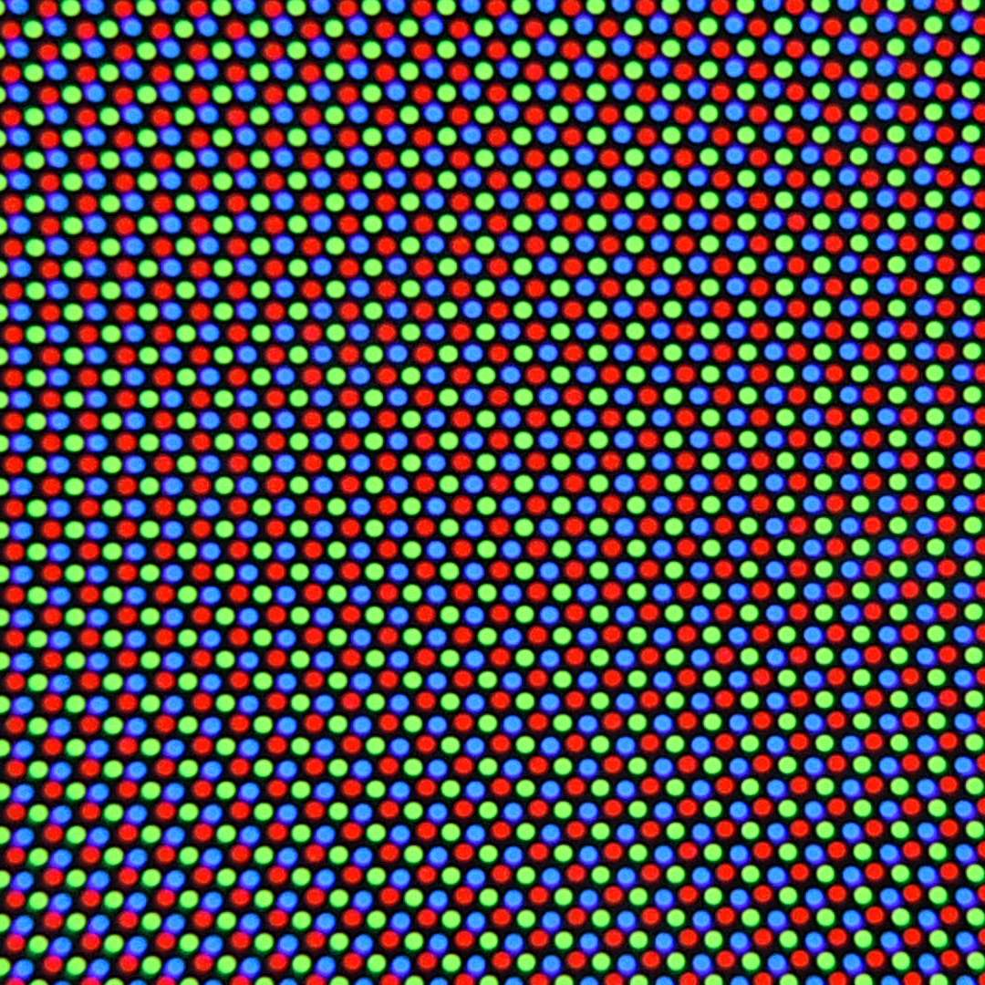 A close-up on a CRT screen